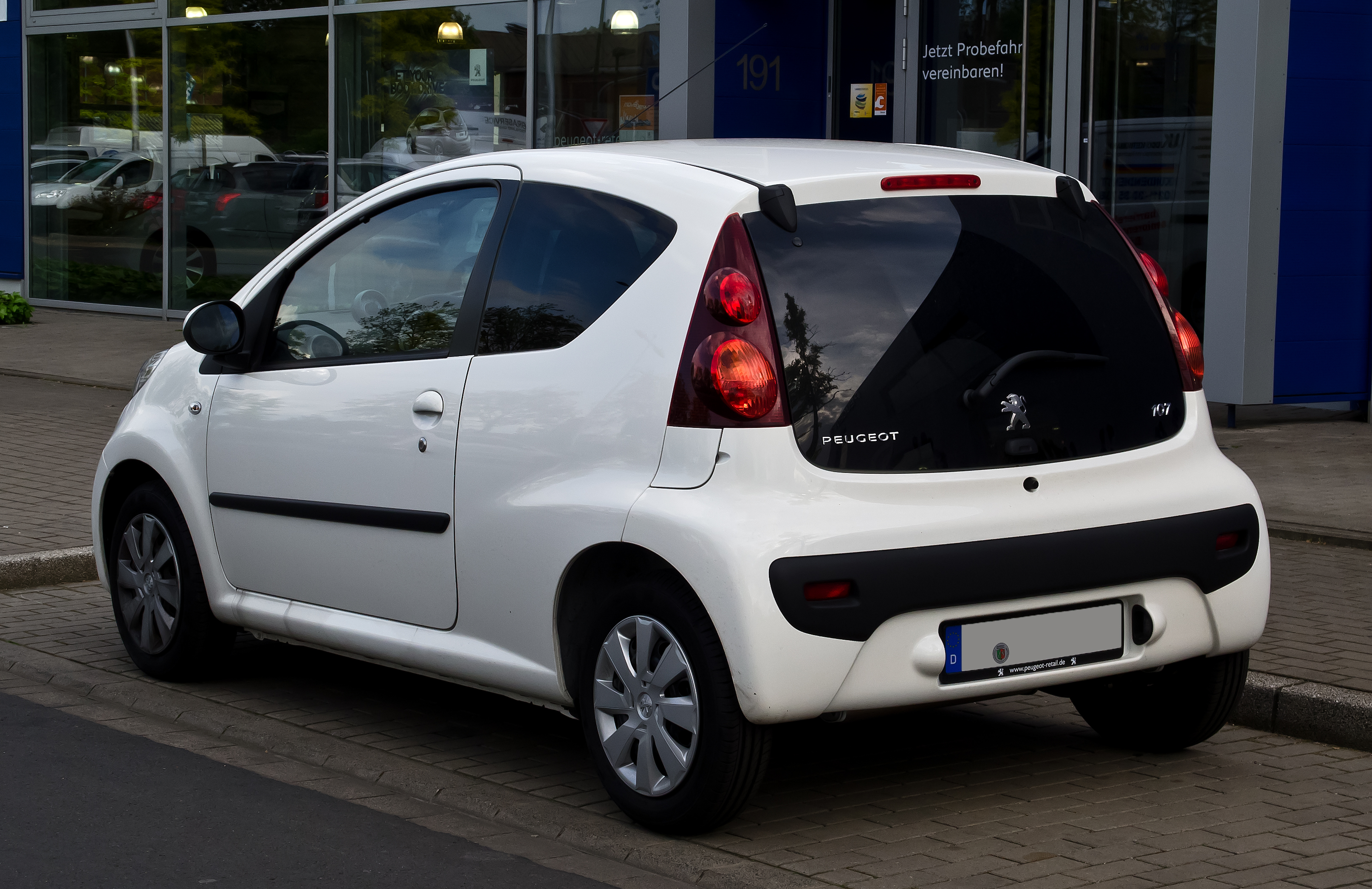 Peugeot 107 68 Active (2. Facelift)